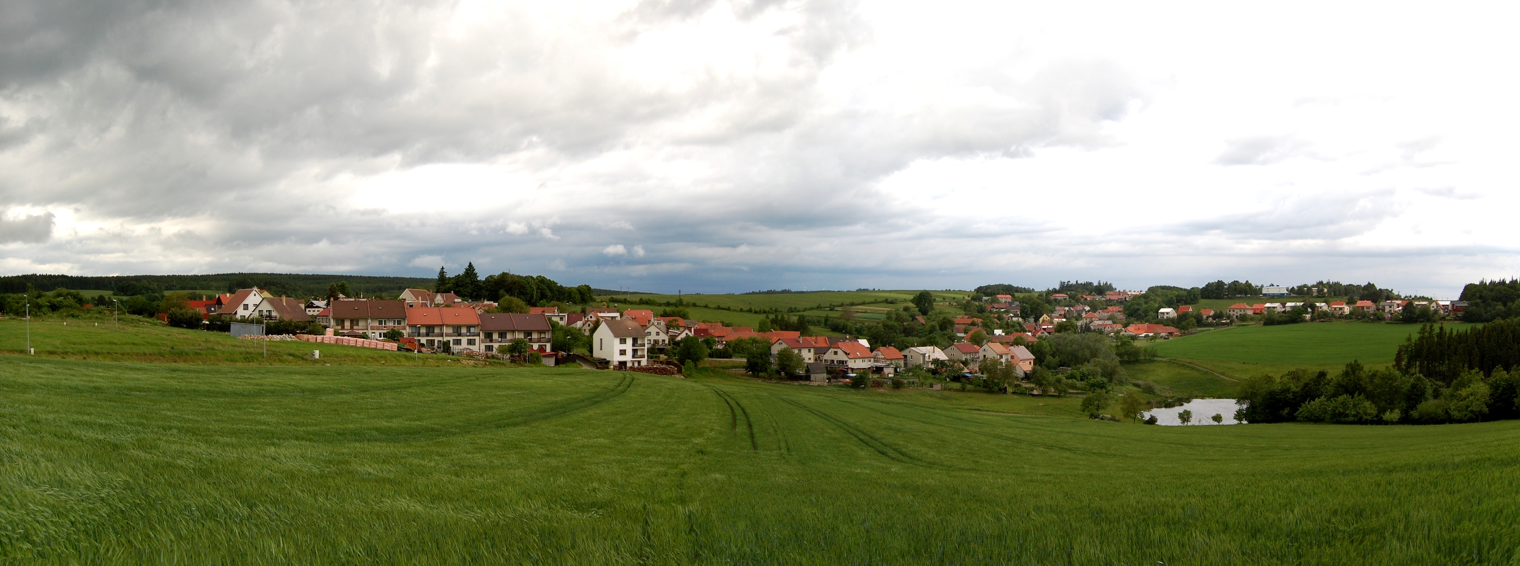 Panorama of village Lipová